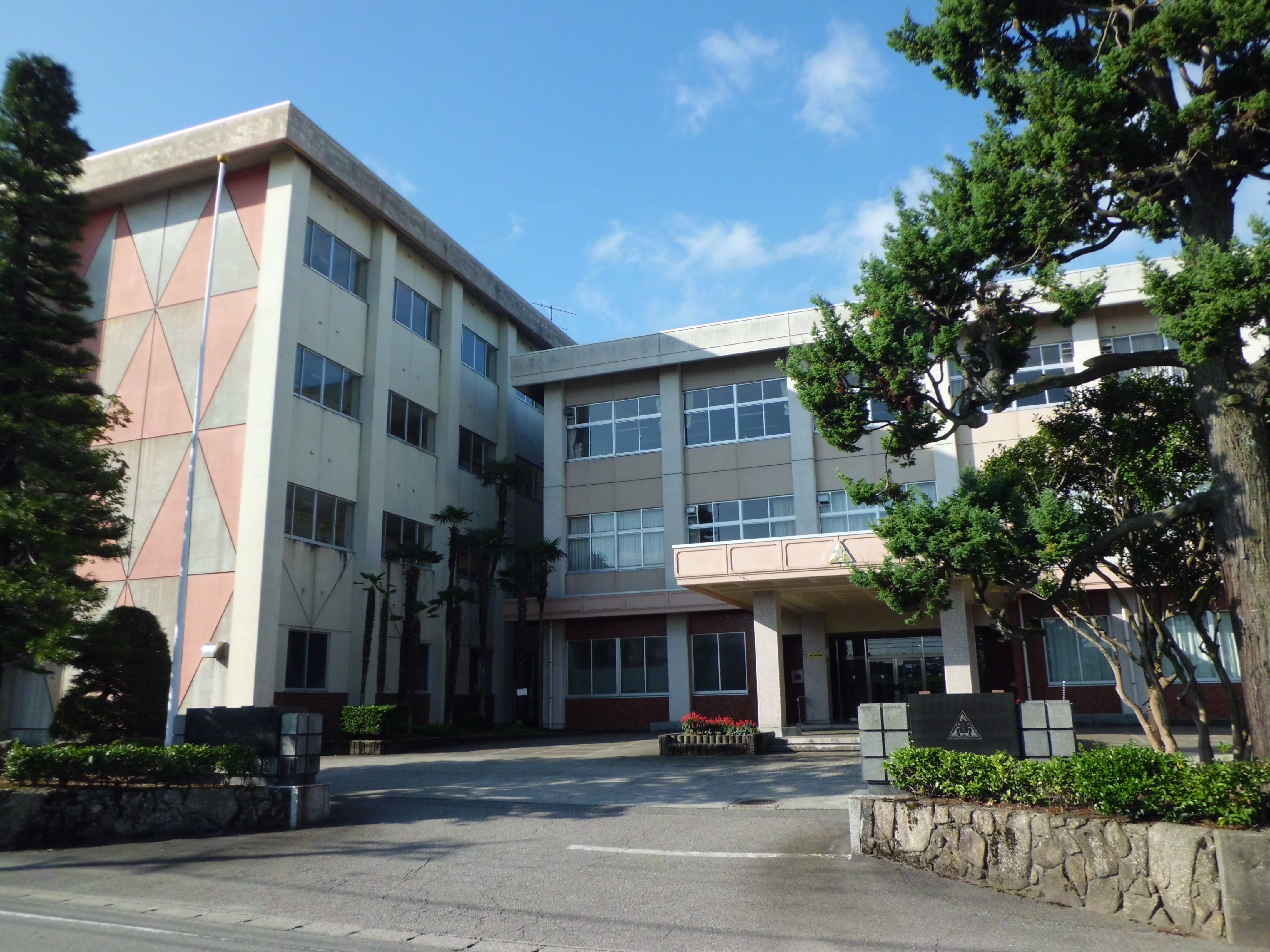 Toyama Prefectural Nyuzen High School in Nyuzen town, Toyama prefecture, Japan.